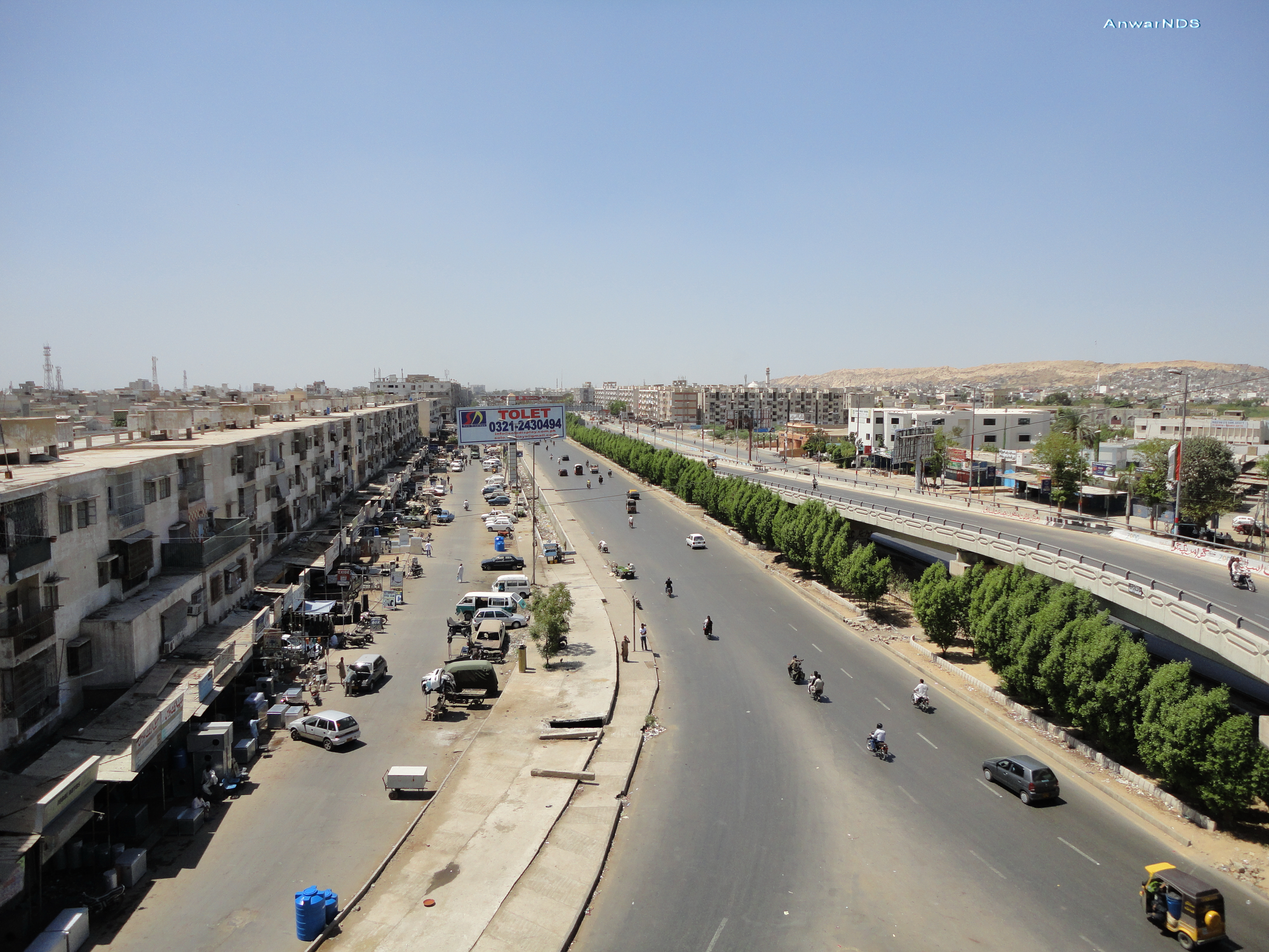 Bridge view of Sakhi Hassan